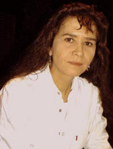 Maria Schneider at the Créteil Films de Femmes, Paris, where she was the guest of honor, March 2001.